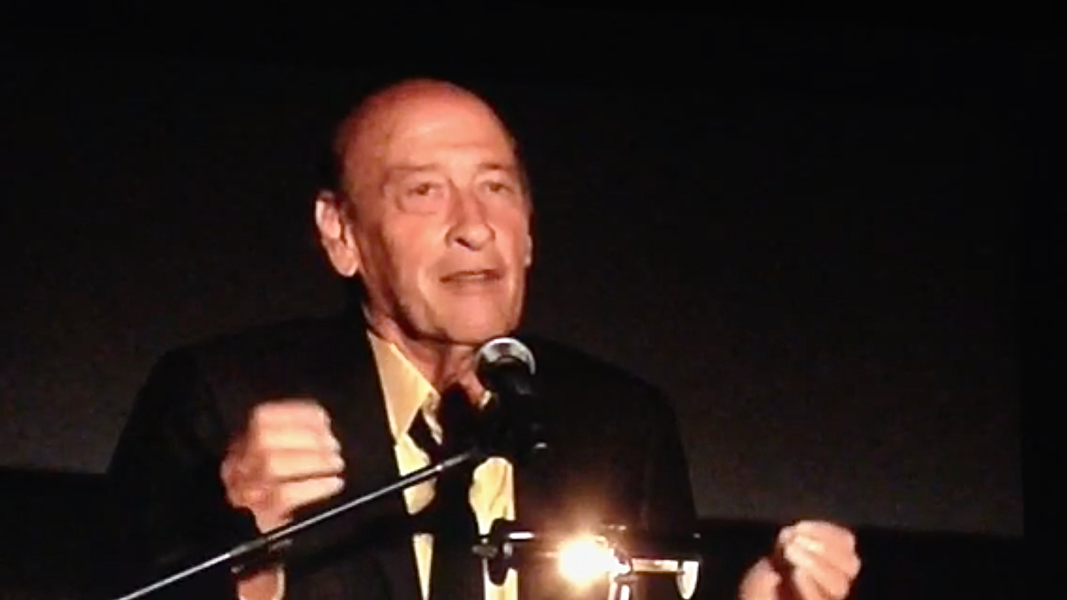 Richard Lester in Bologna for the "Cinema Ritrovato" July 5, 2014